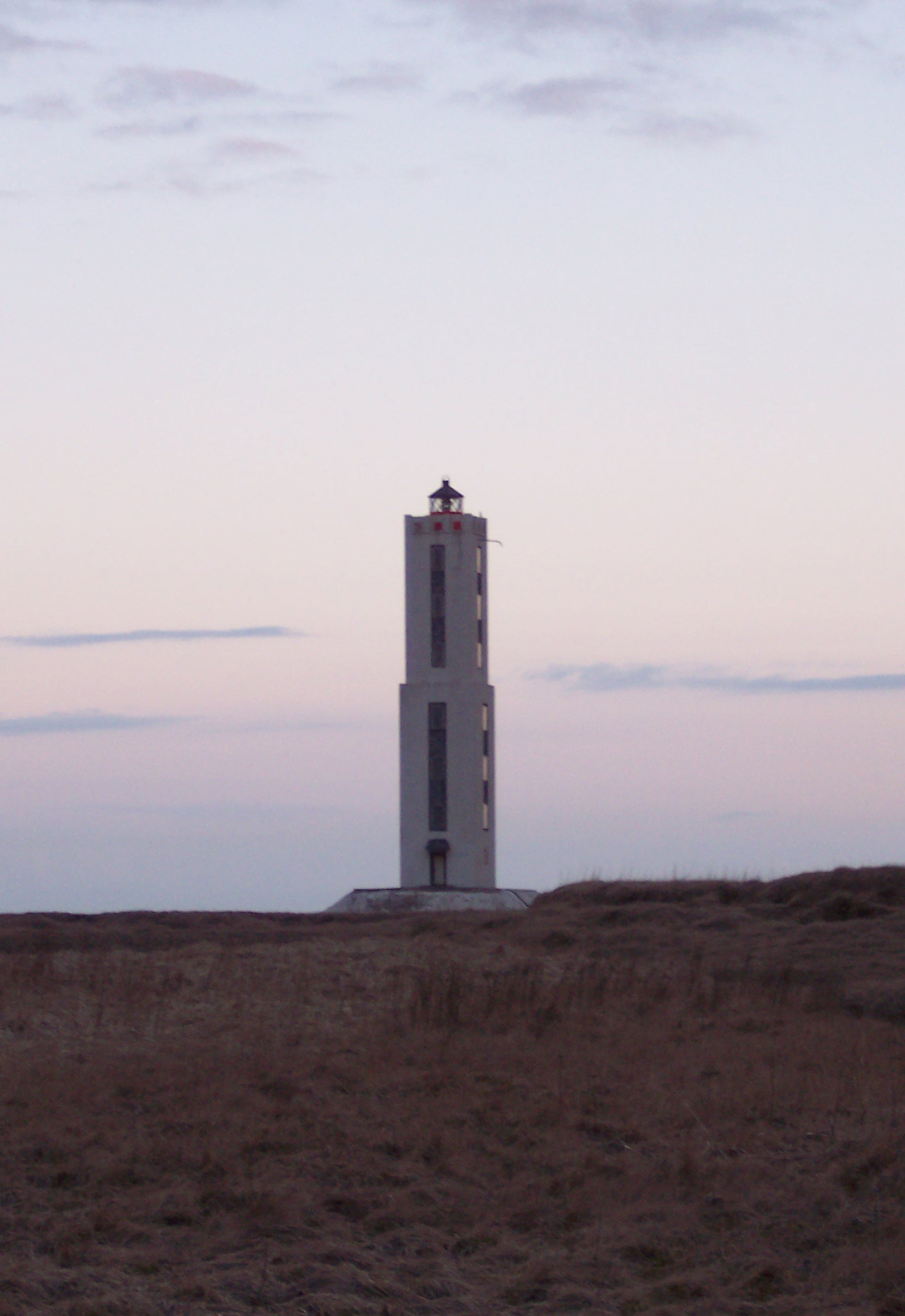 Knarraósviti lighthouse in south-Iceland.